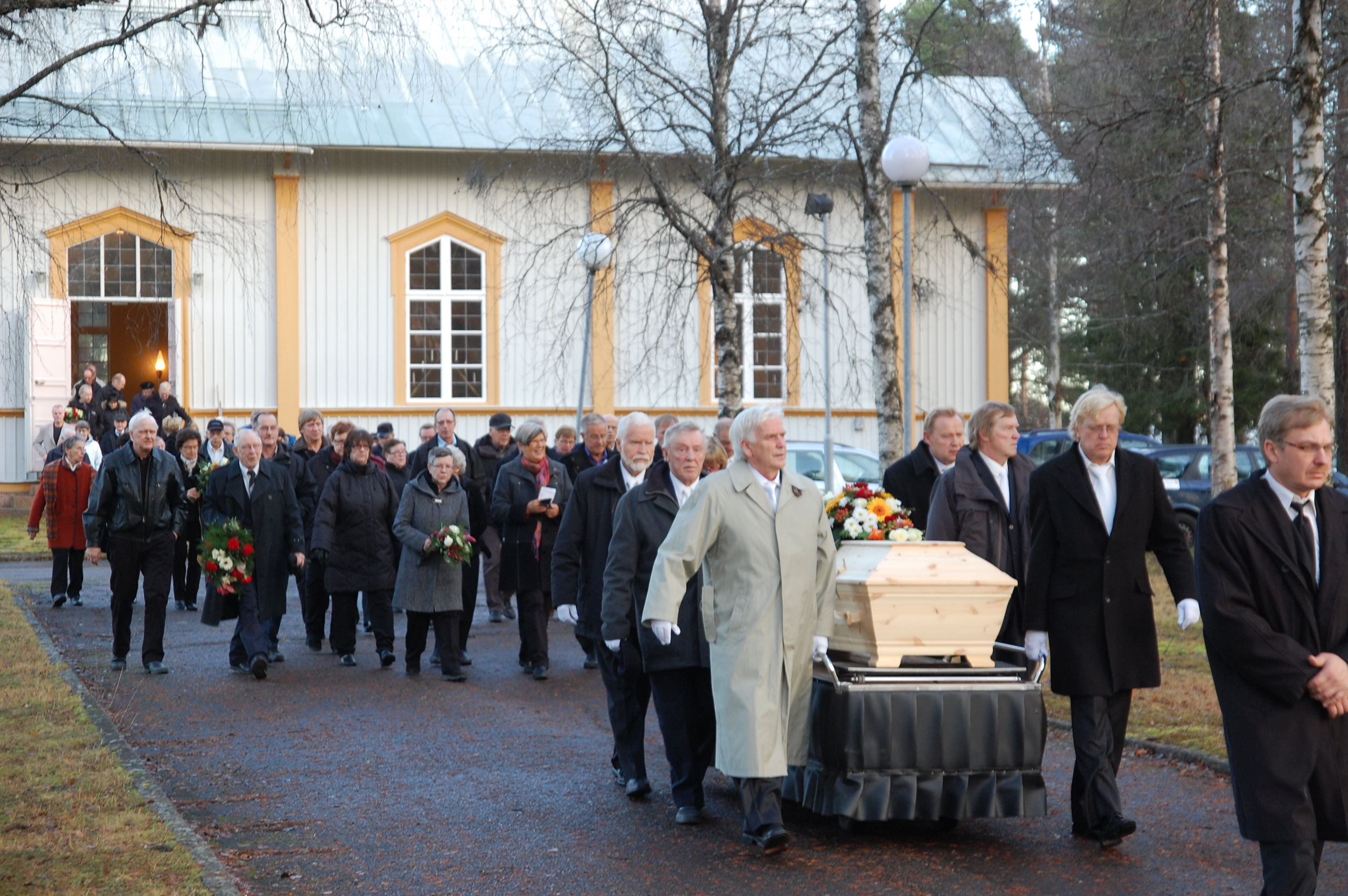 Funeral, Torne valley, Sweden